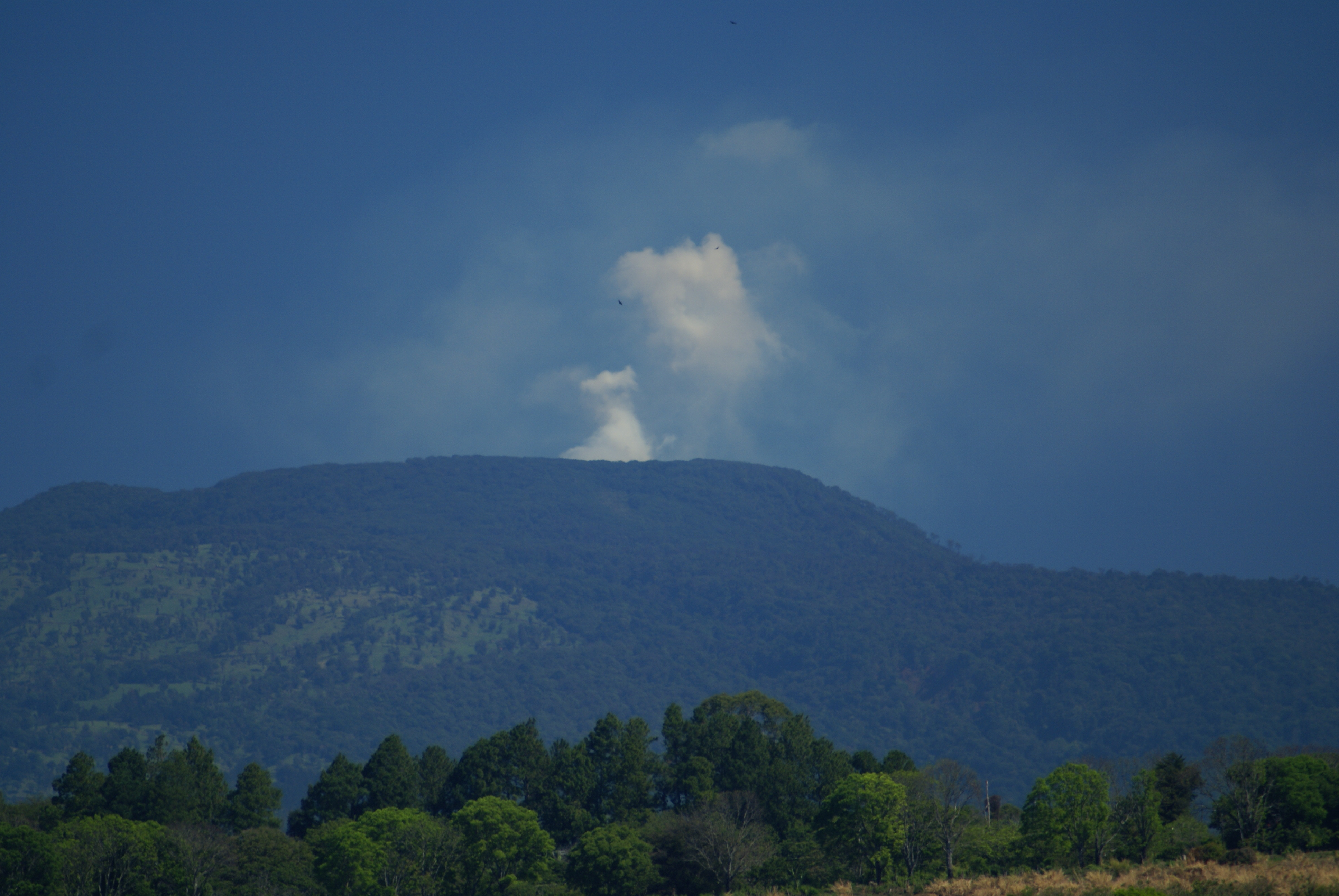 Poás Volcano (Costa Rica). The volcano is 20 km far.